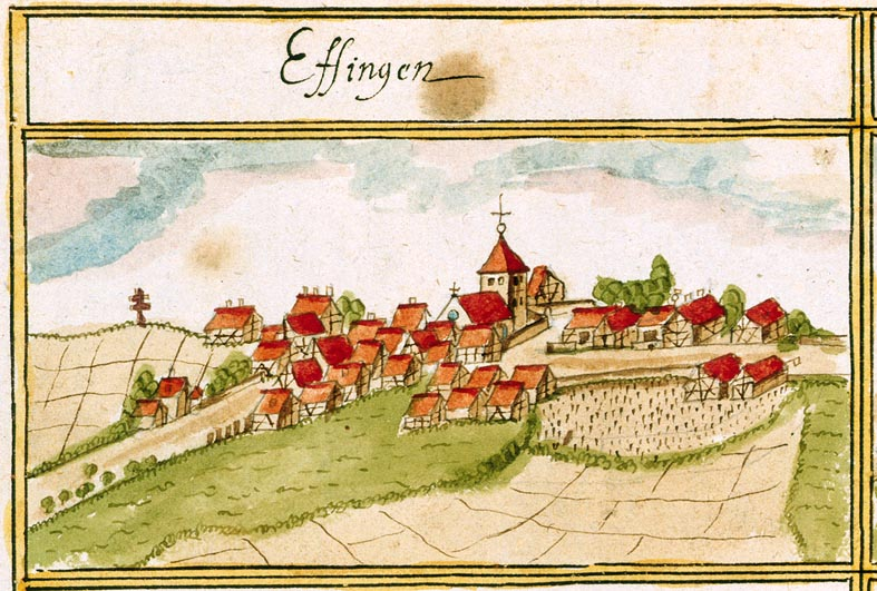 View on Oeffingen in 1686